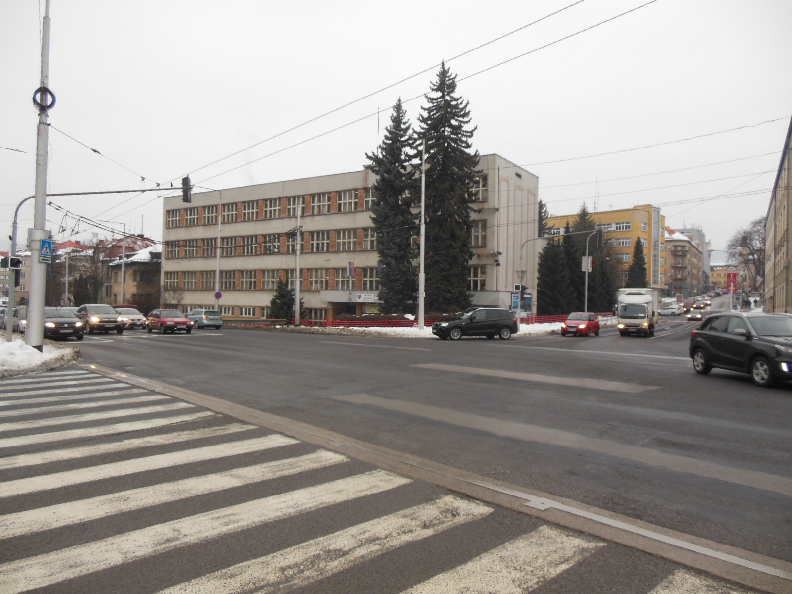 School of arts in Banská Bystrica, Slovakia. December 2017